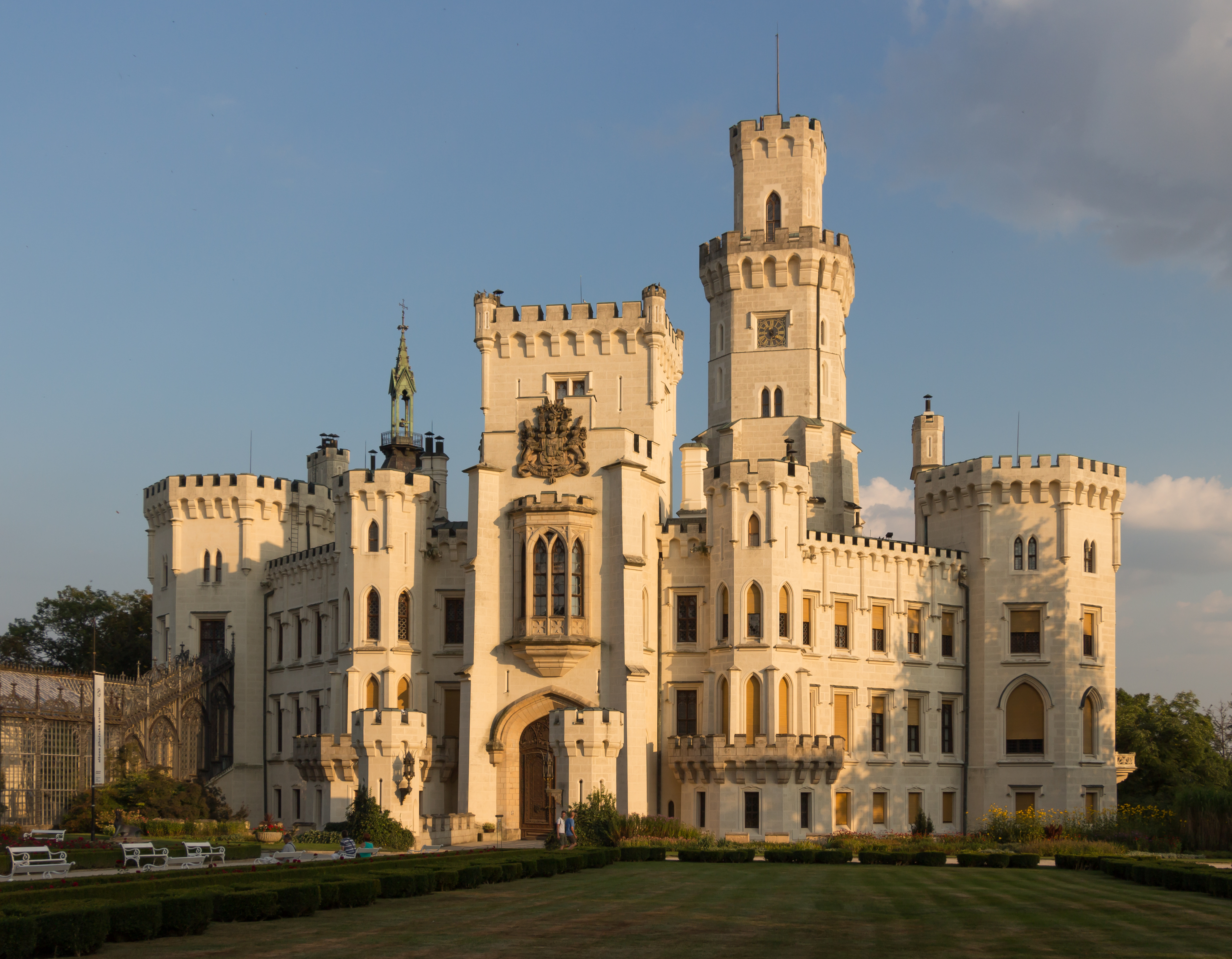 Castle Hluboká during sunset. České Budějovice District, Czech Republic